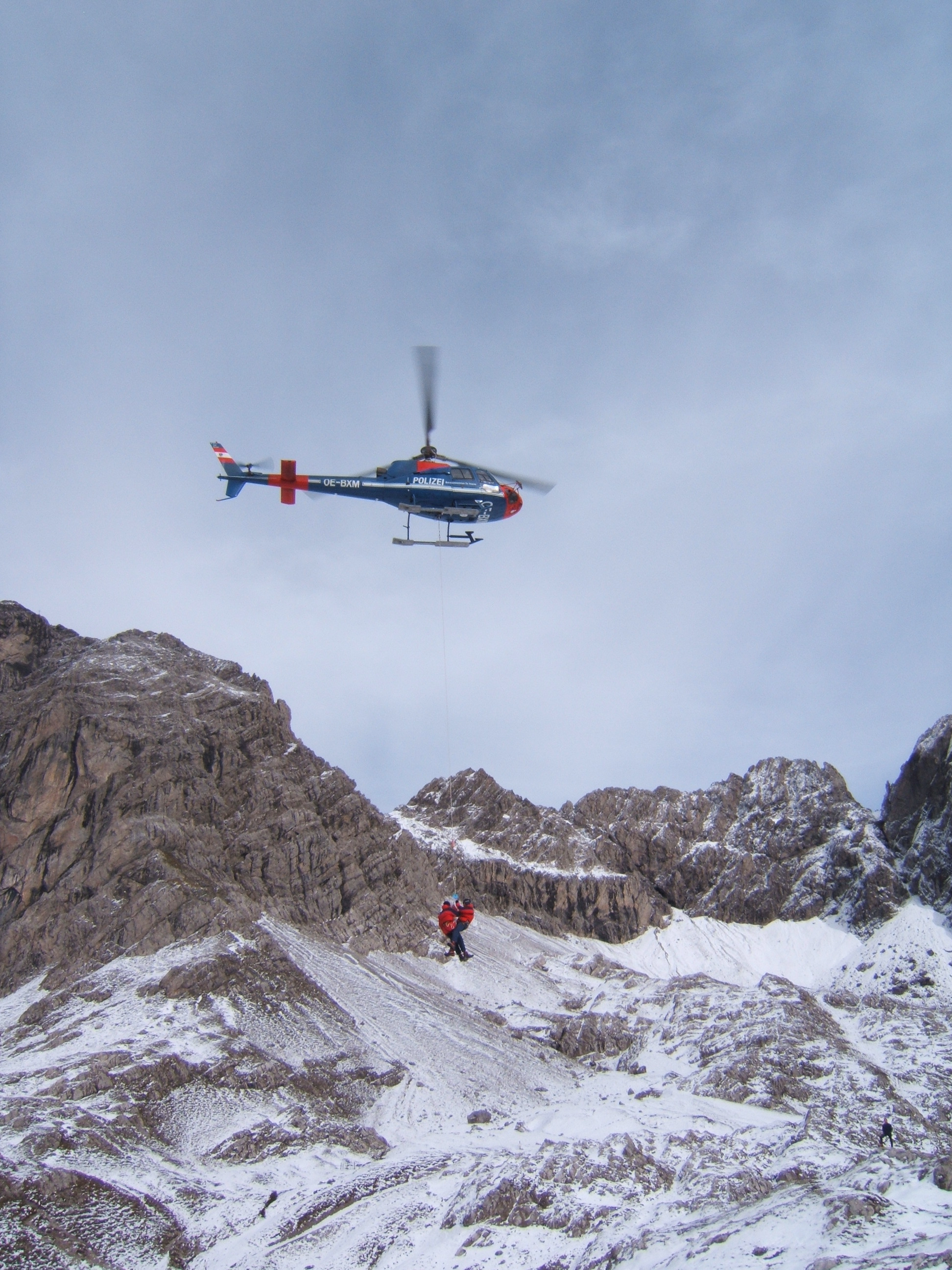 Helicopter with 2 officers (alpine police) on a rope (training flight)